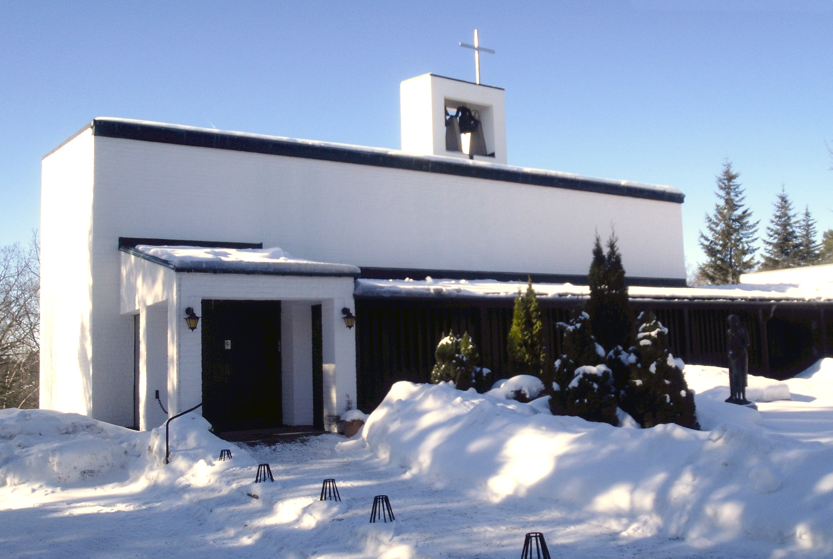 The Petrus Church, Stocksund north of Stockholm, 2010